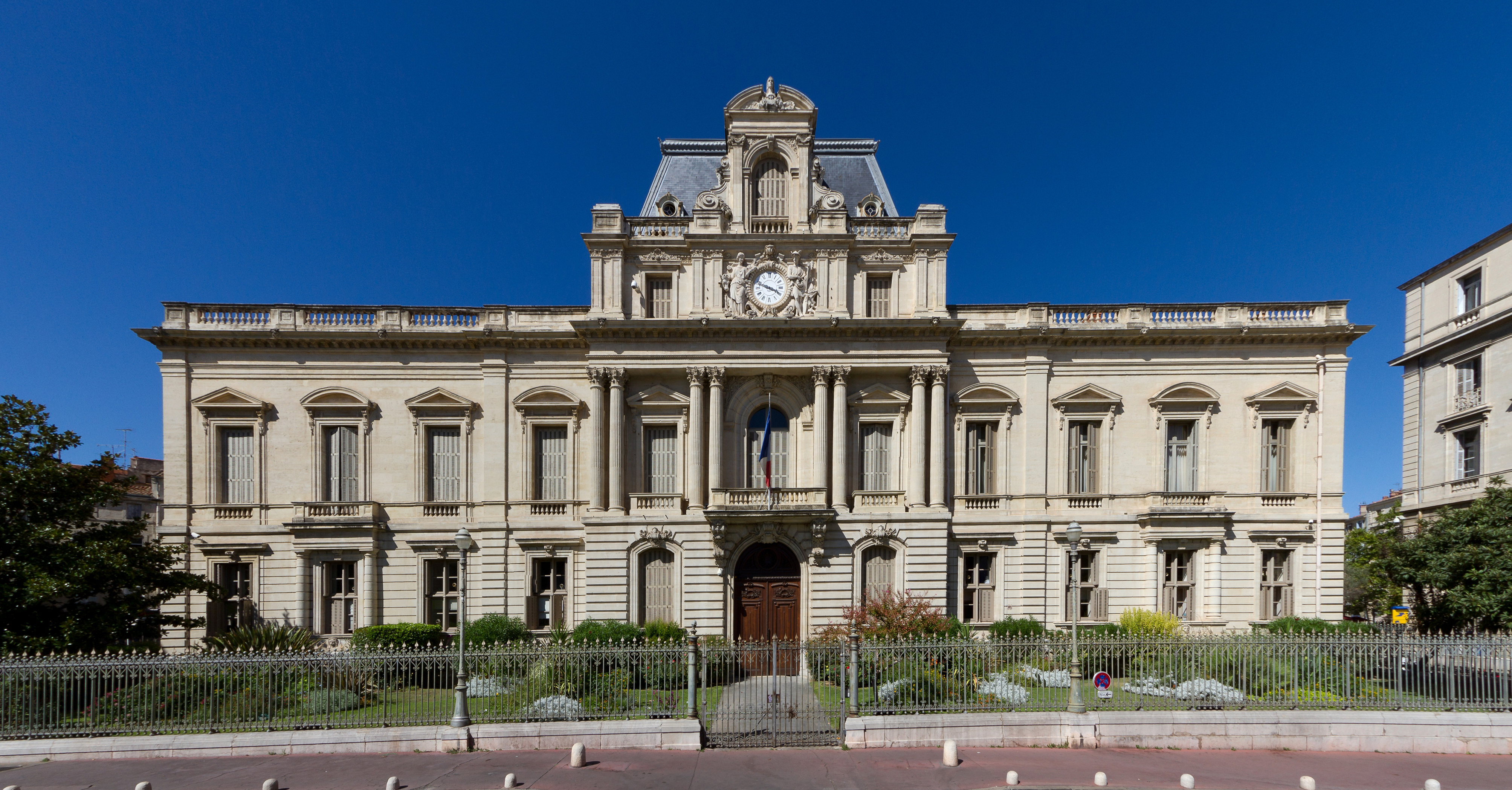 Prefecture of Montpellier (Hérault)